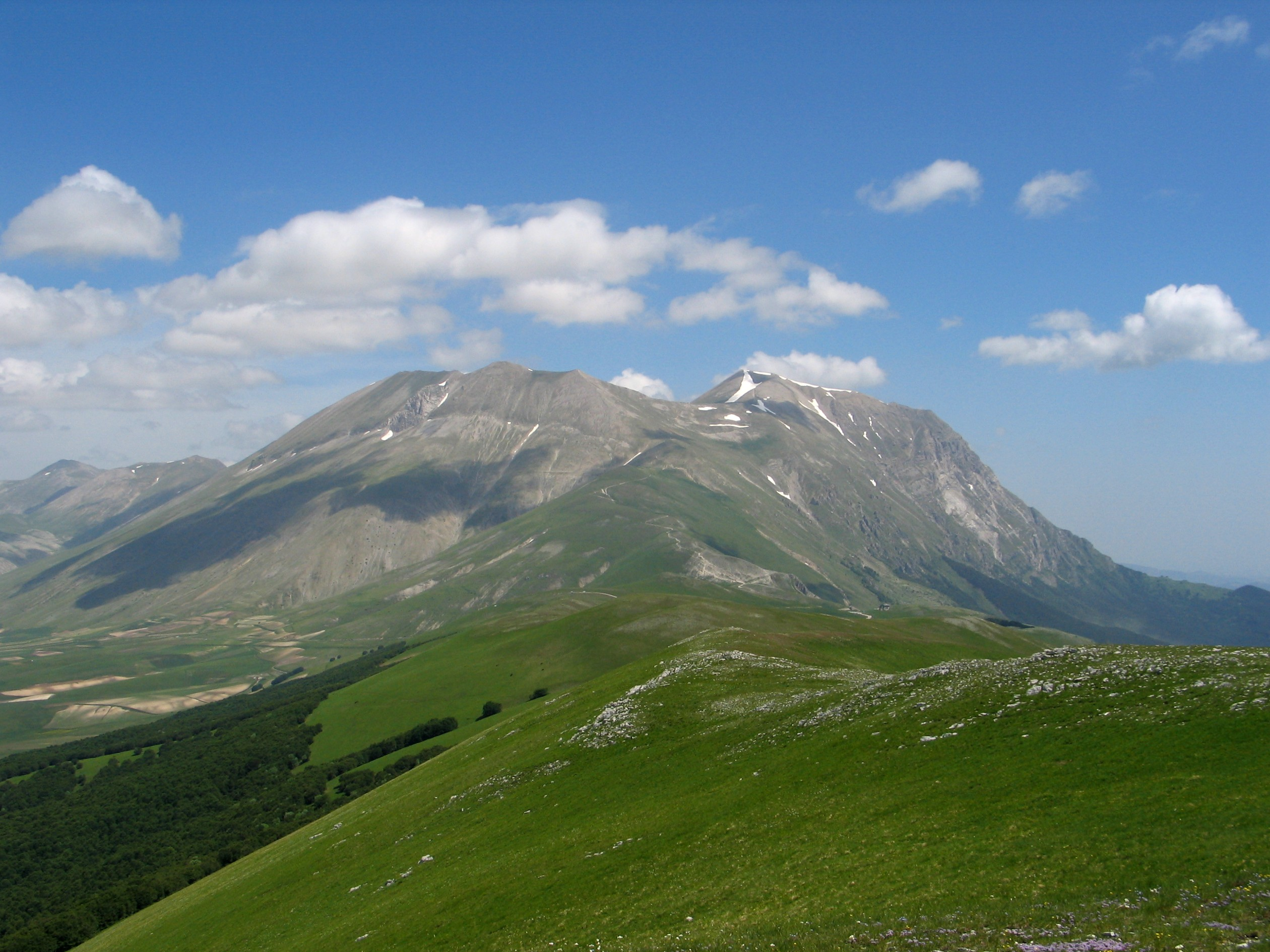 Jeff Taylor - Monte Vettore View: From Monte Macchialto above the montain pass Forca di Presta of road strada provinciale SP477/3 to the upper part of Monti Sibillini. The left peak is Cima del Redentore (2448), Monte Vettore (2478) is in the right. The valley in the left (North-West) is the karstic basin Piani di Castelluccio.